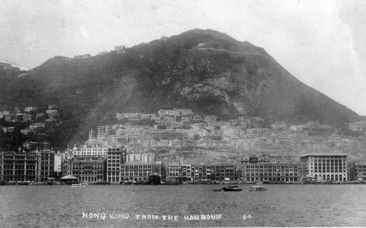 Hong Kong from the harbour. Correspondence dated 1928. Postcard; no publisher named